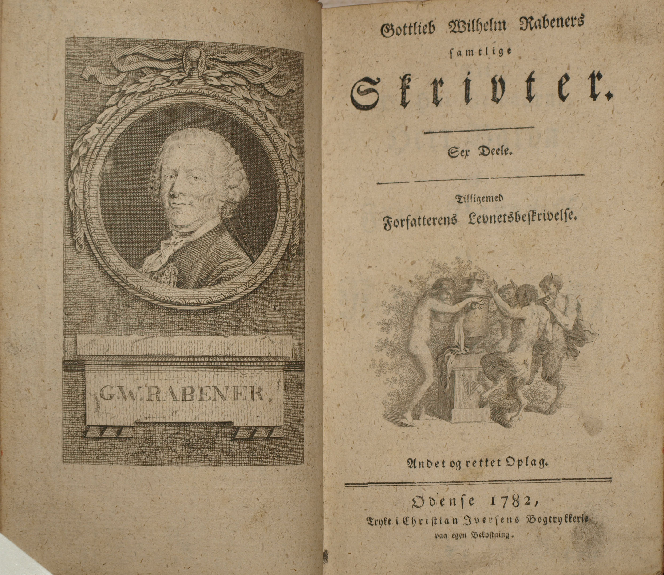 The title pages of the Danish edition of Rabeners collected works.